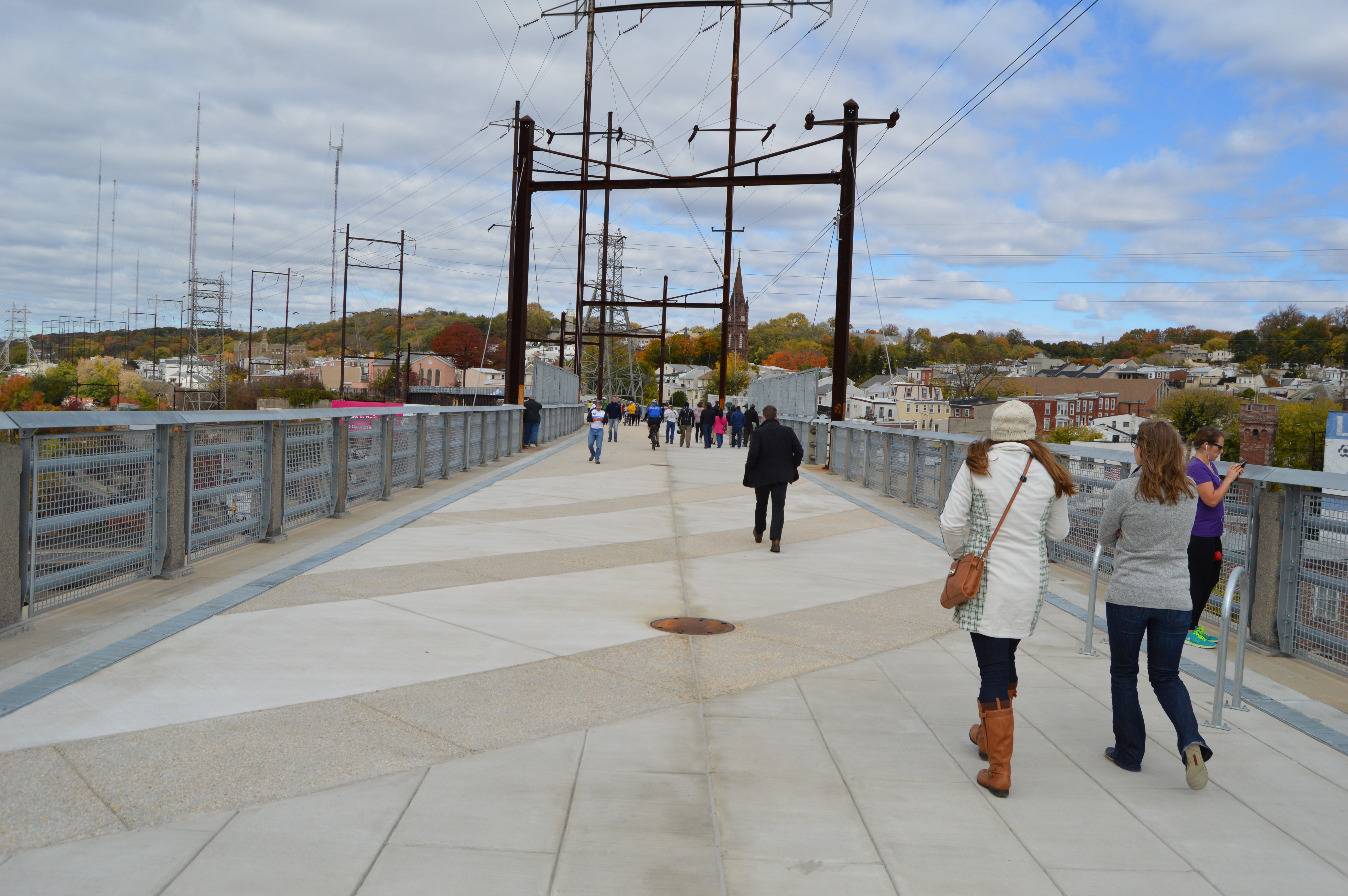 Walkers on the newly reopened Manayunk Bridge in October 2015